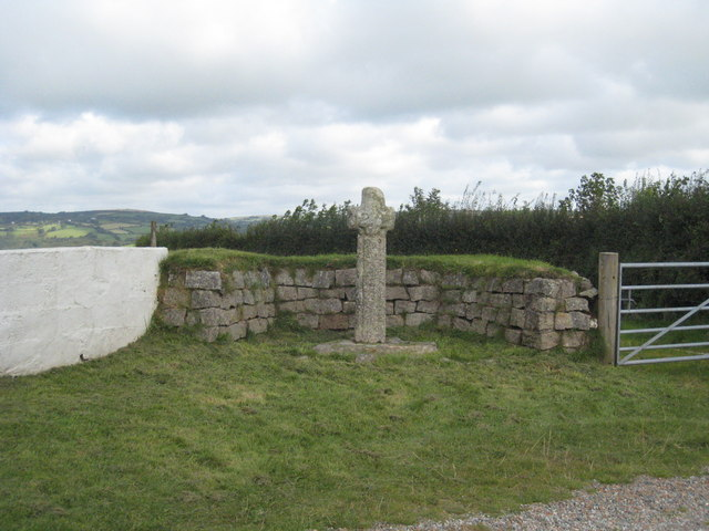 Ancient cross at Tredinnick A plaque on the base explains that the cross was found buried on this site in 1958 and was restored and re-erected by Mr L J Rowe and Mr J W R Coggin on behalf of Liskeard Old Cornwall Society in 1960.